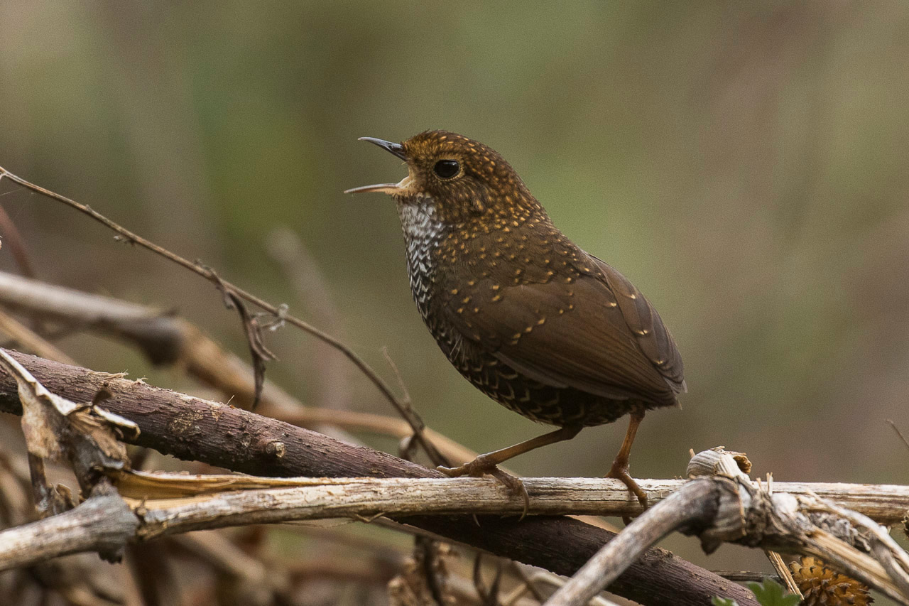 Scaly-breasted Wren-Babbler - Eaglenest - India_FJ0A9148